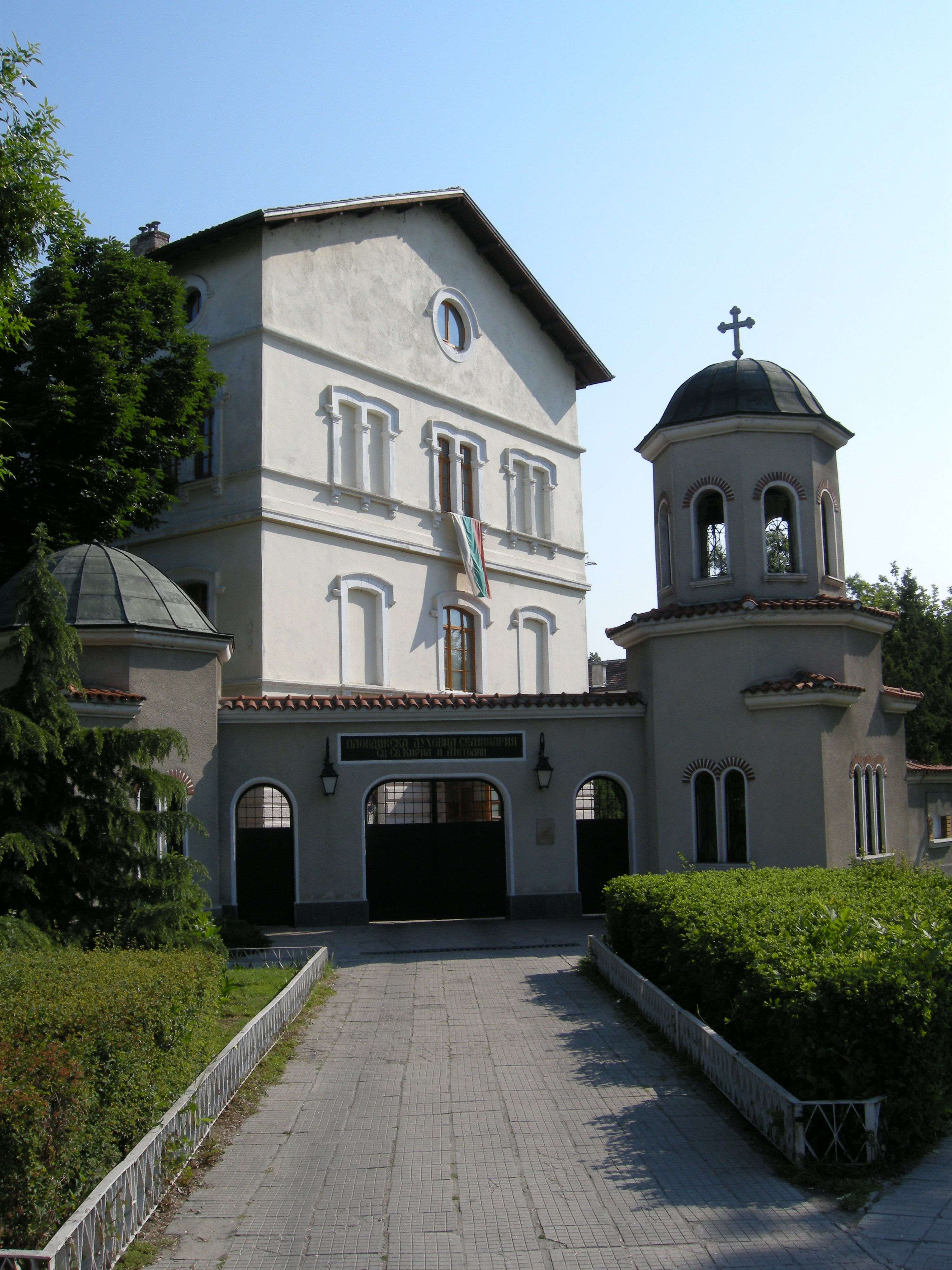 Eastern Orthodox Christian Seminary "St. St. Kiril and Methodii" in Plovdiv, under the jurisdiction of the Bulgarian Orthodox Church.